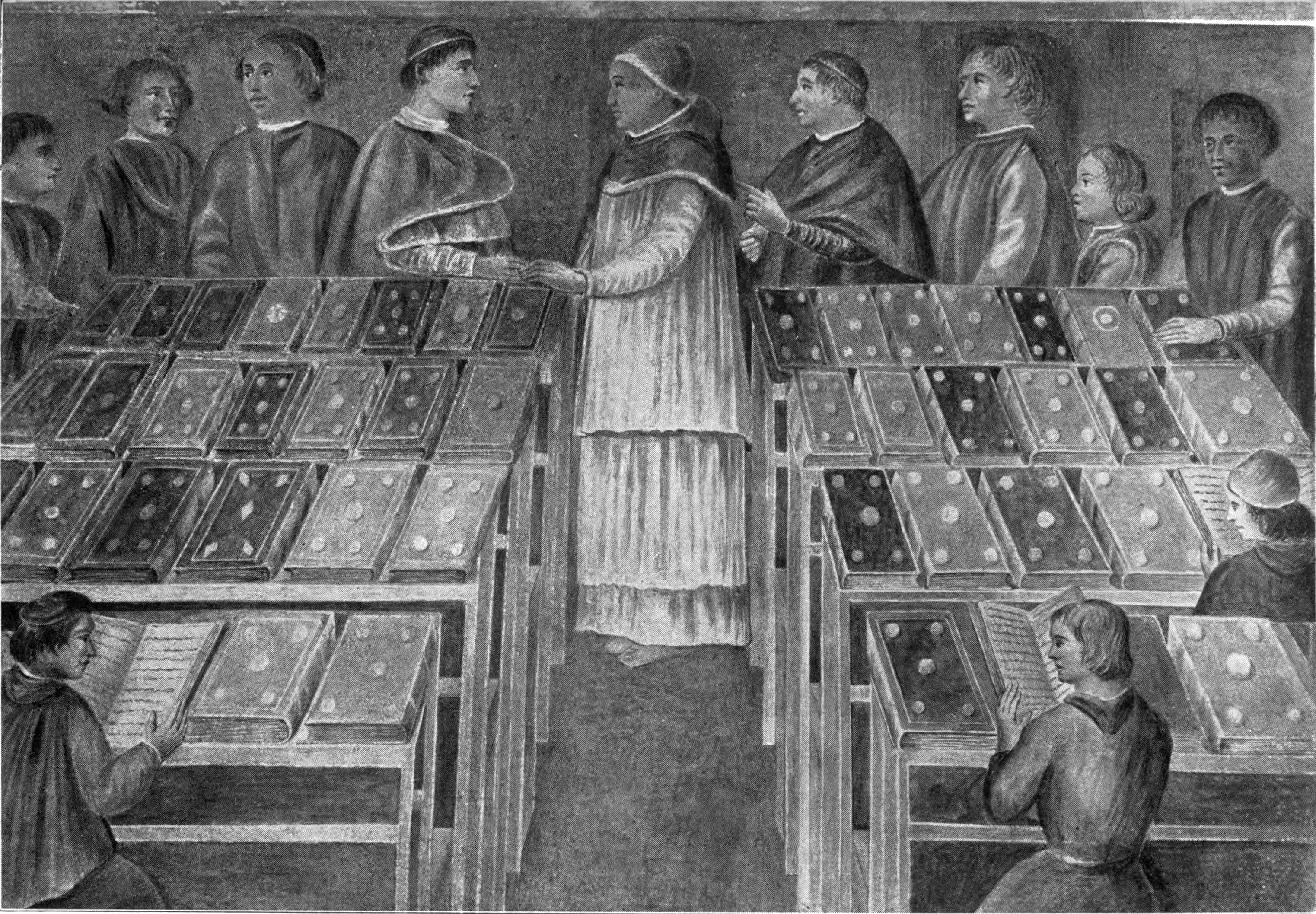 Interior of the Library of Sixtus IV from On the Vatican Library of Sixtus IV